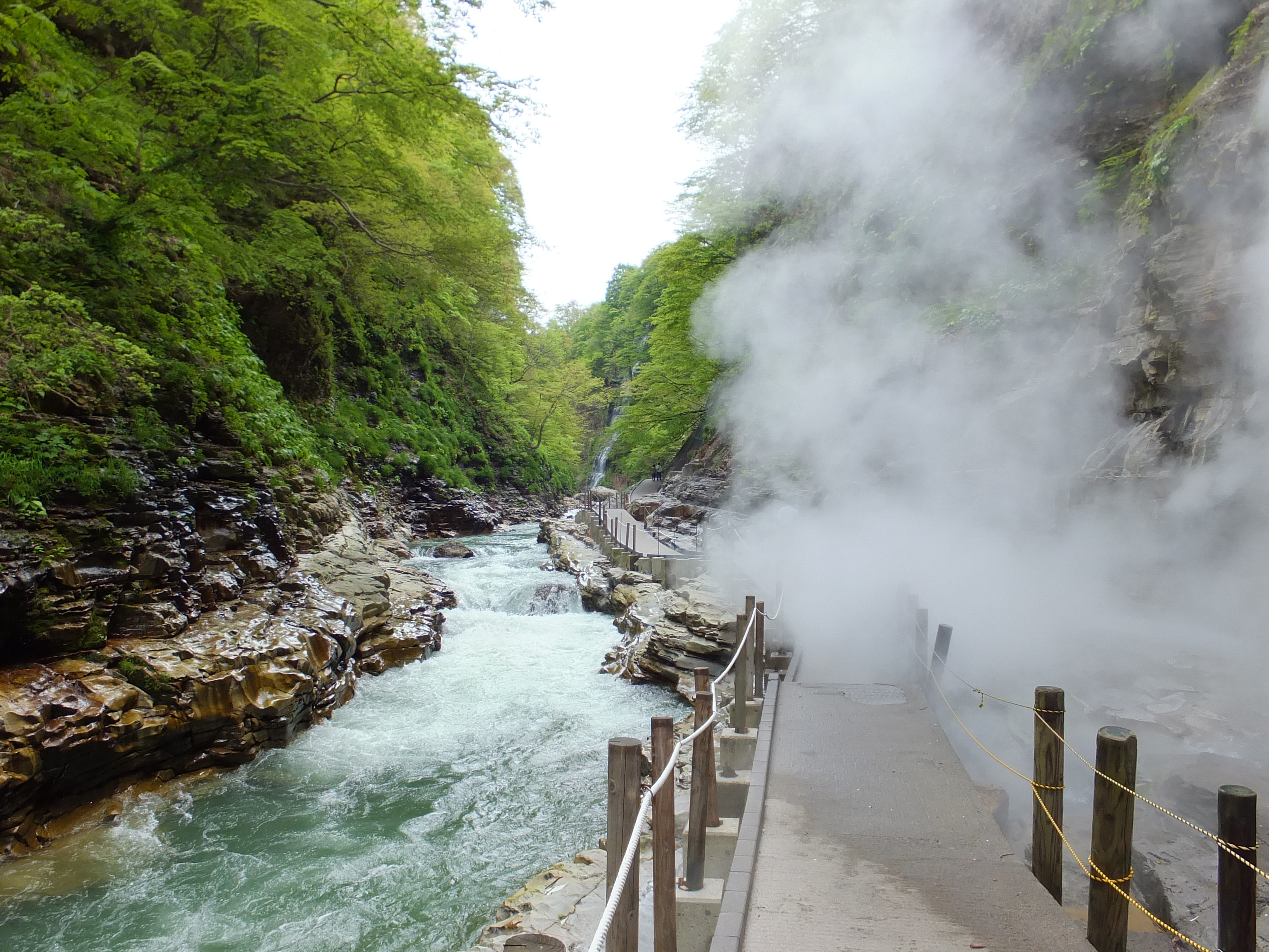 Oyasu Ravine in Yuzawa, Akita, Japan